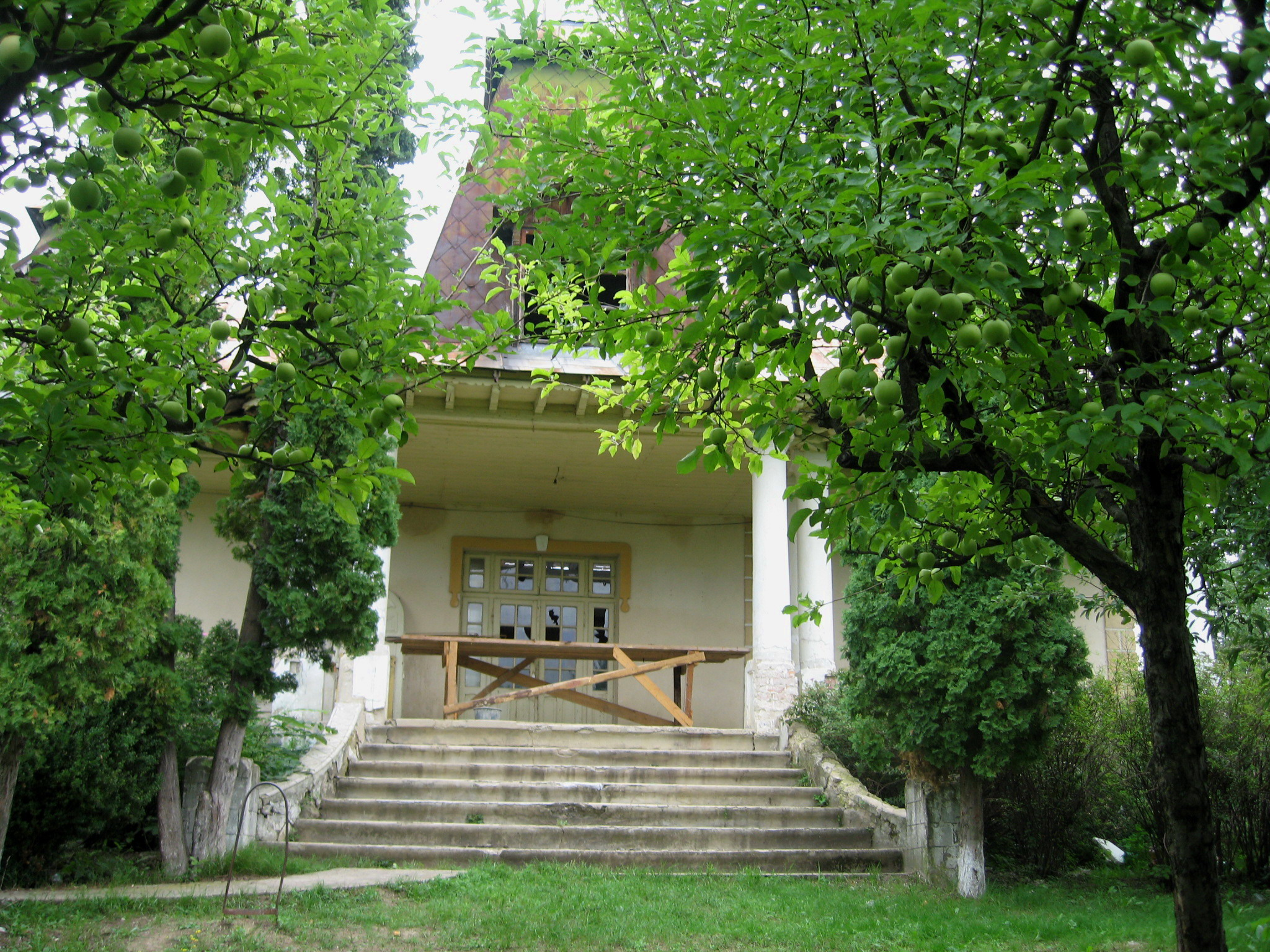 Conacul lui Ion Inculeţ din Bârnova